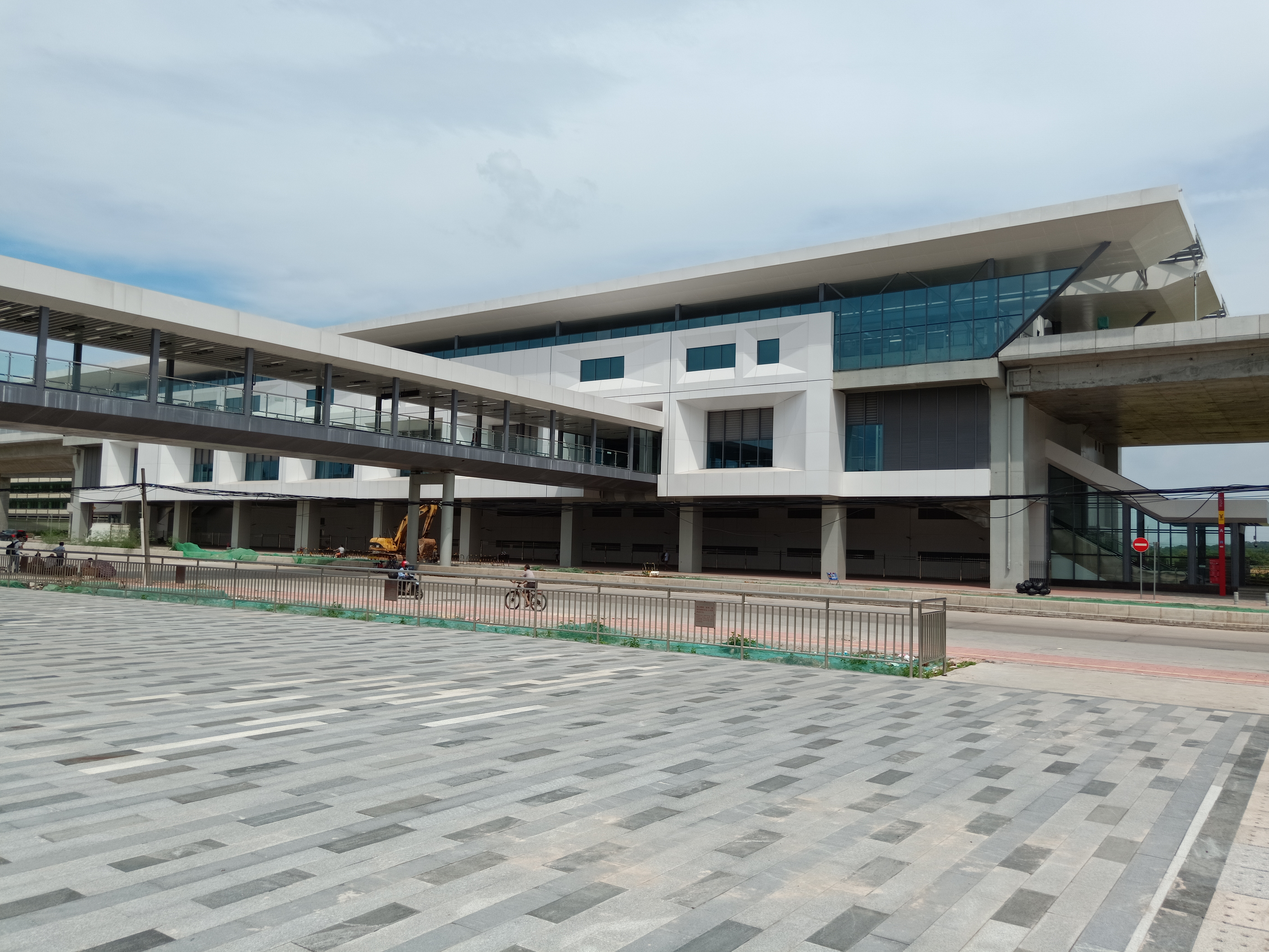 Station Surface for Xinhe Station in Guangzhou Metro.